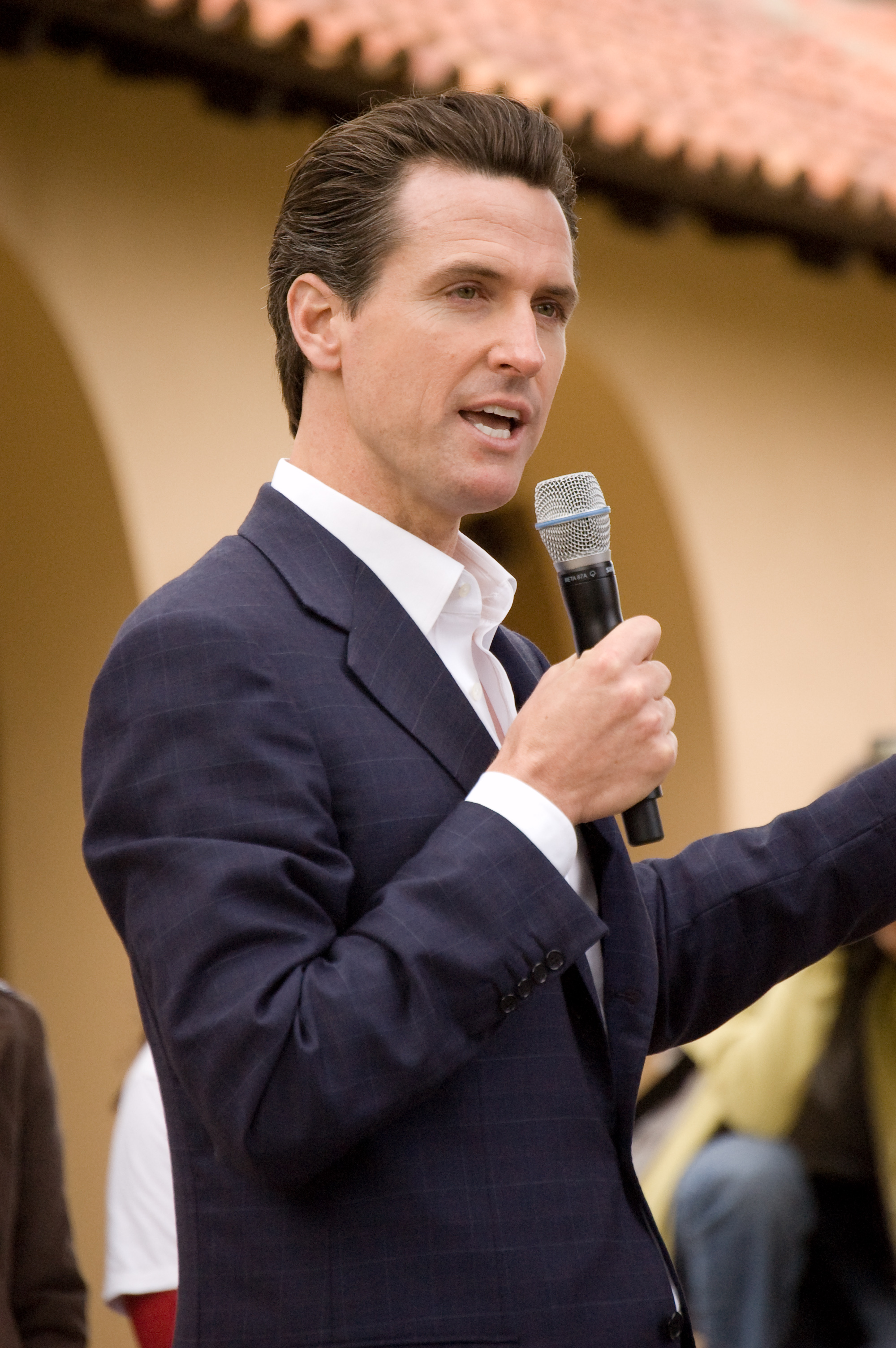 San Francisco mayor Gavin Newsom at Stanford University, giving a speech in opposition to California Proposition 8